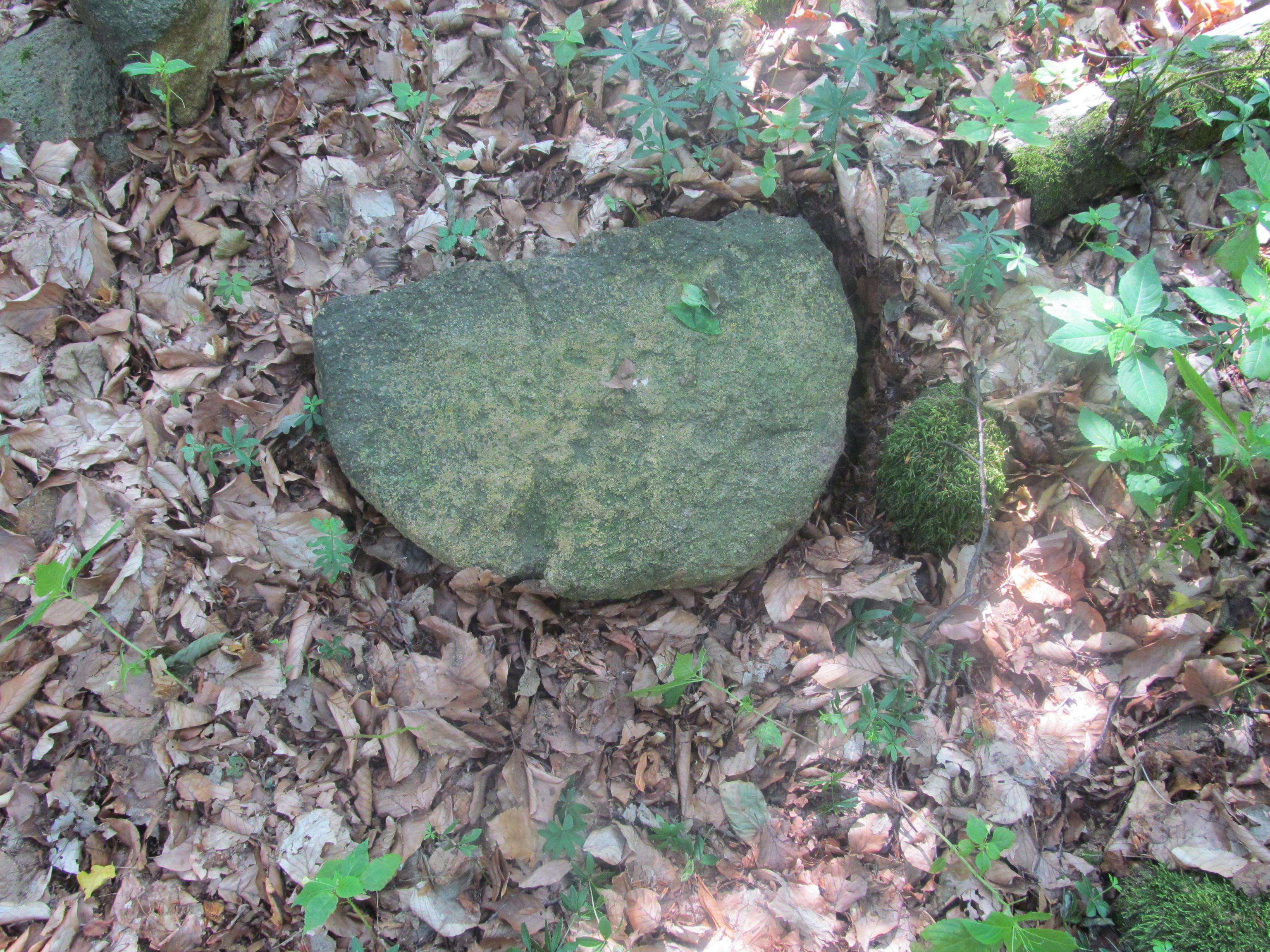 Medieval millstone in Oparno Czech Republic